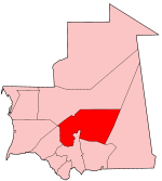 Map of Mauritania showing Tagant region.